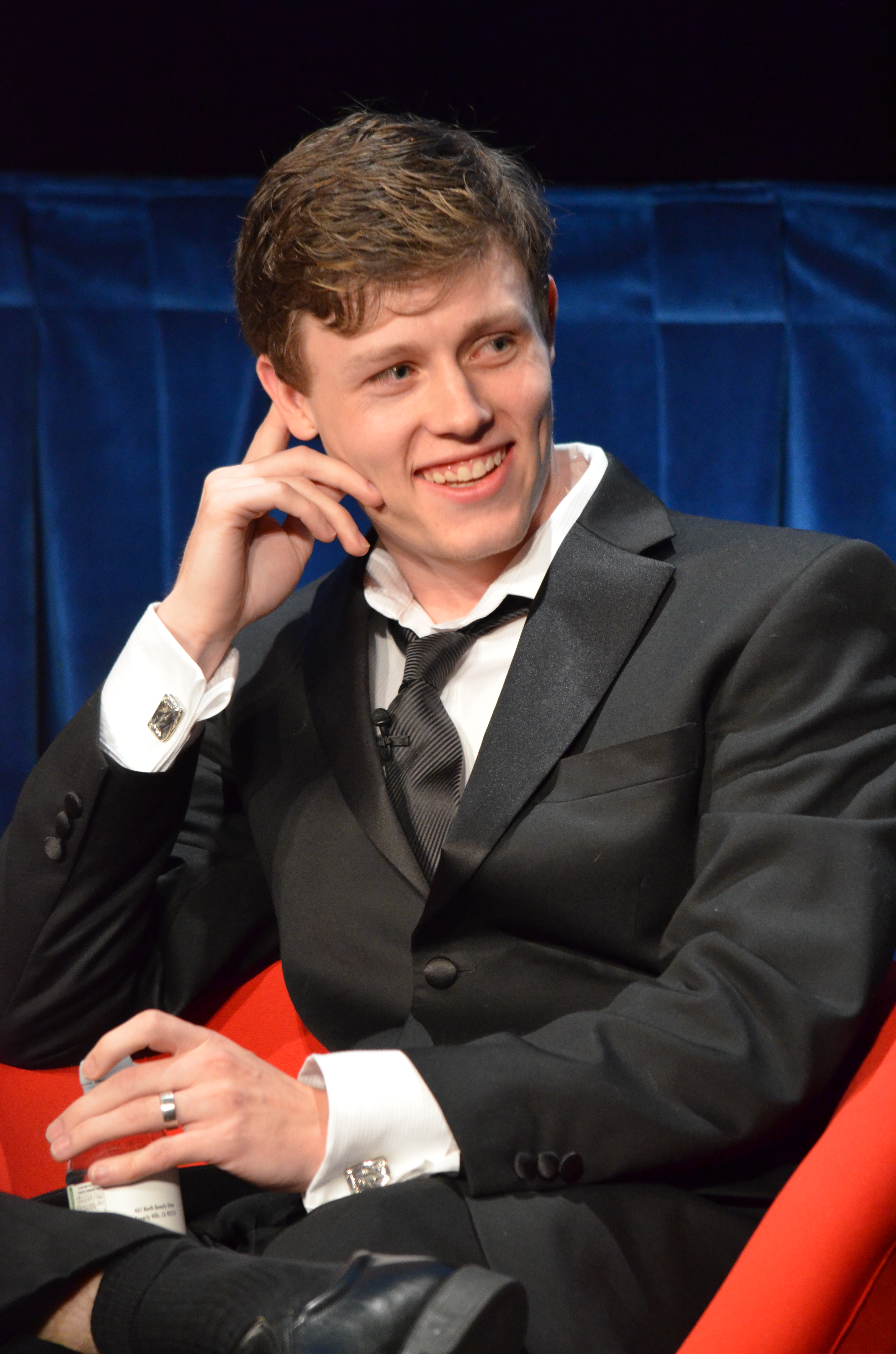 Nick Eversman at Missing Paley Center in Los Angeles (2012)